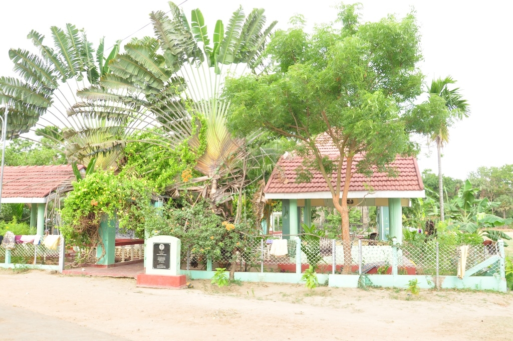 A view of the Mahadeva Achchirama Children Home